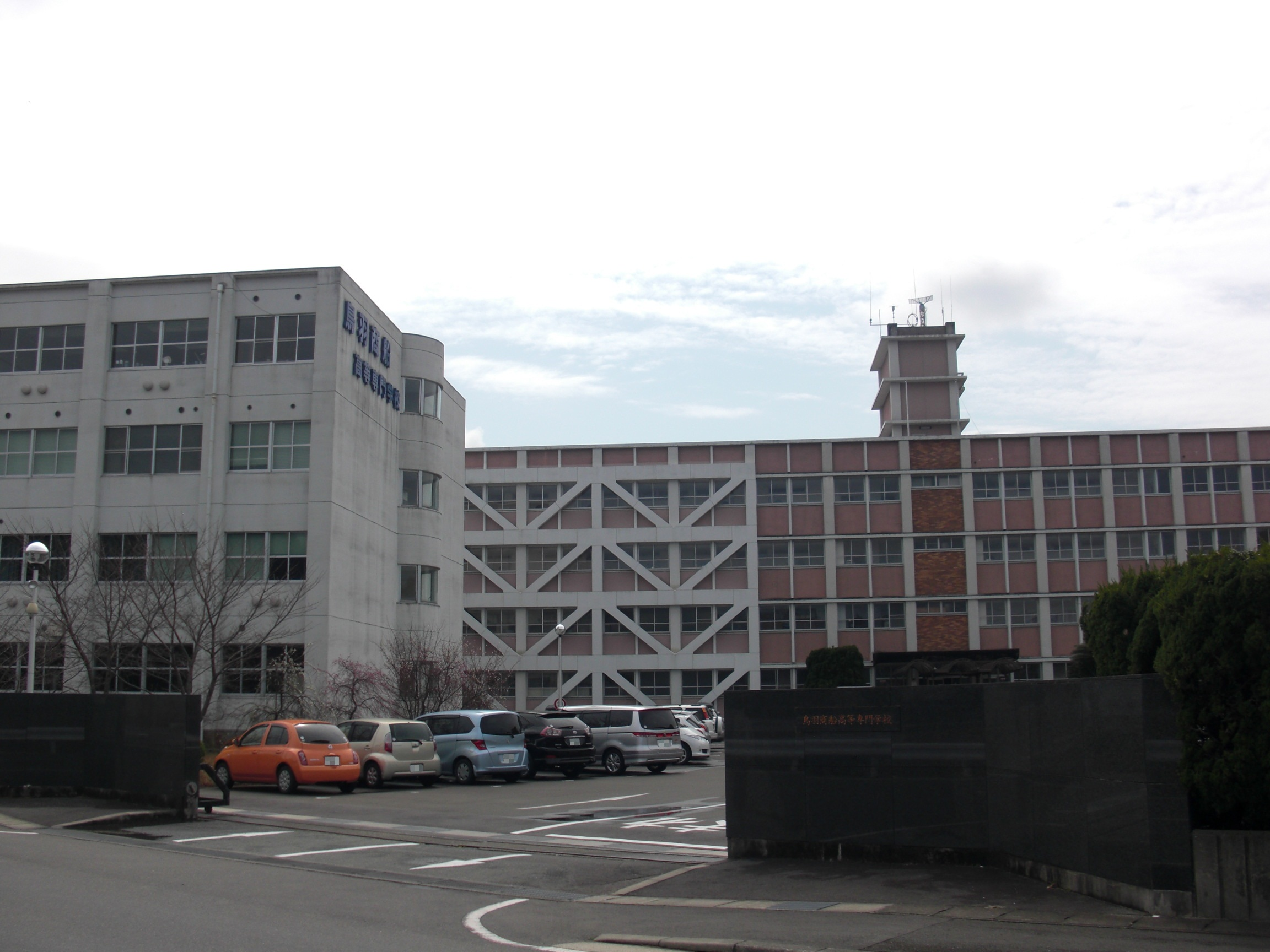 National Institute of Technology Toba College in Toba City, Mie Prefecture, Japan